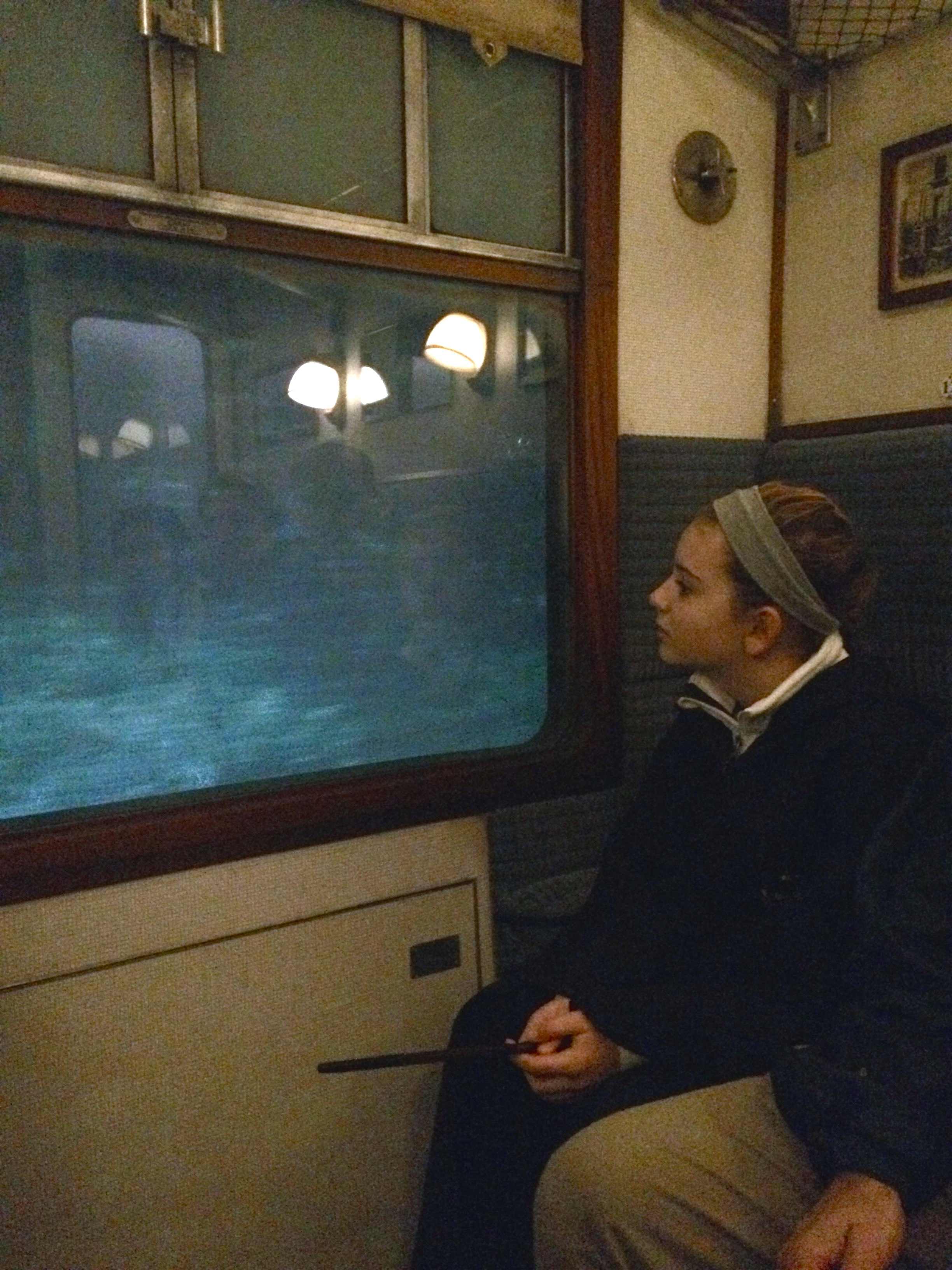 Universal Orlando. Thanksgiving 2014.